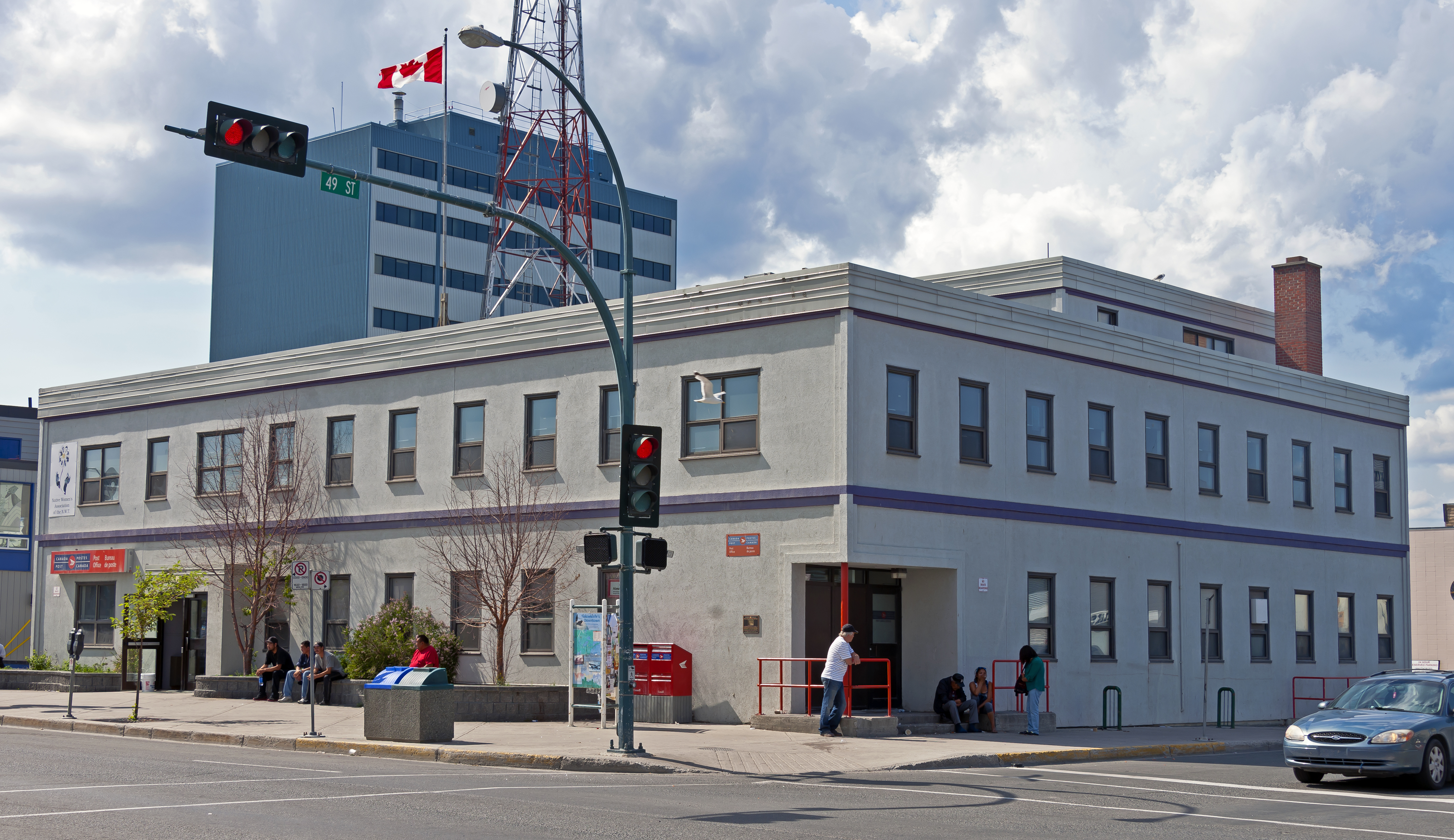 Yellowknife Post Office, from across the intersection of Franklin and 49th